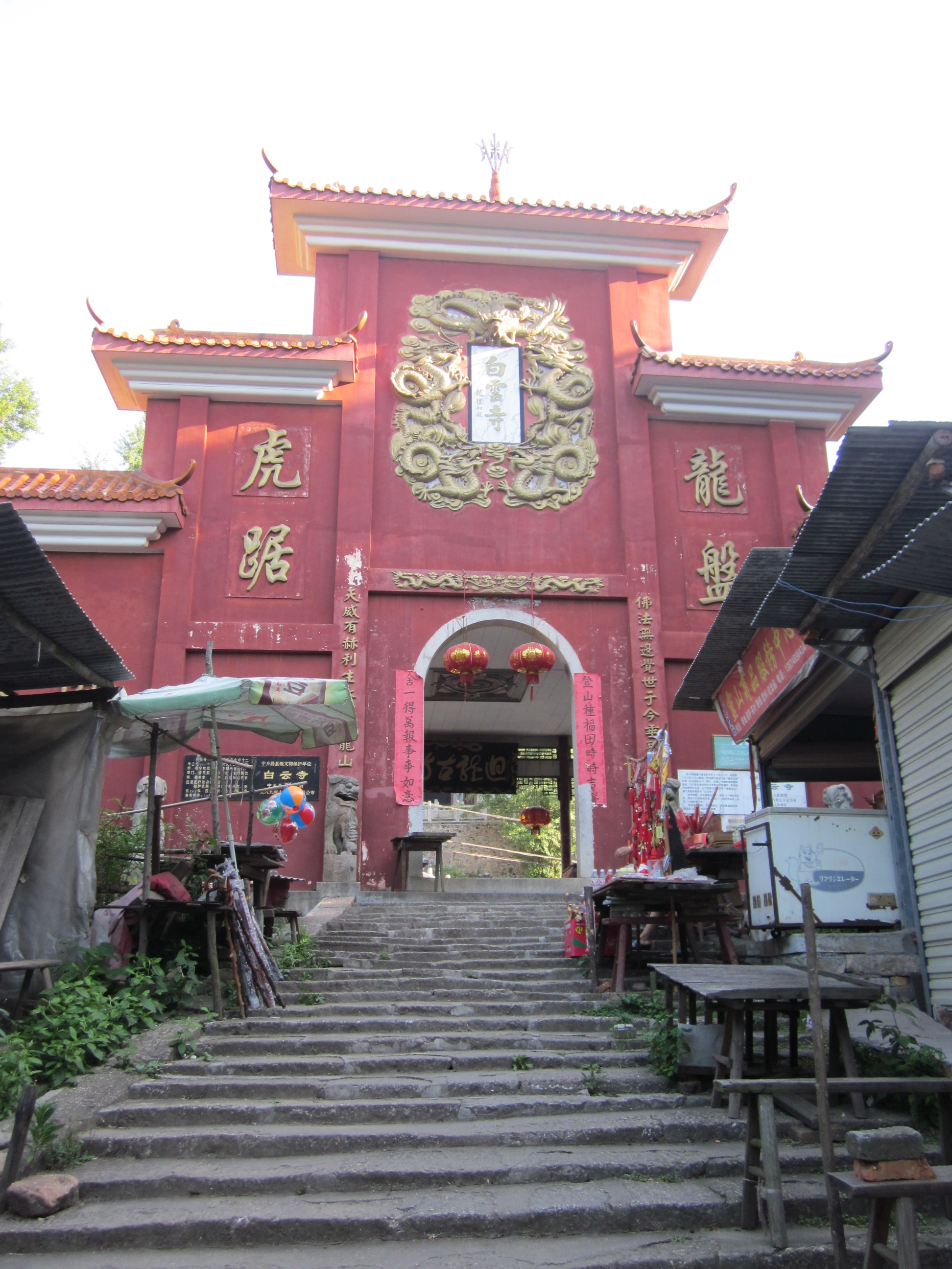 The shanmen at Baiyun Temple, in Ningxiang County, Hunan province, China.